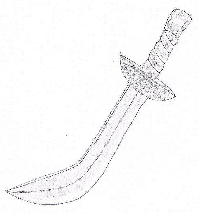 Sica